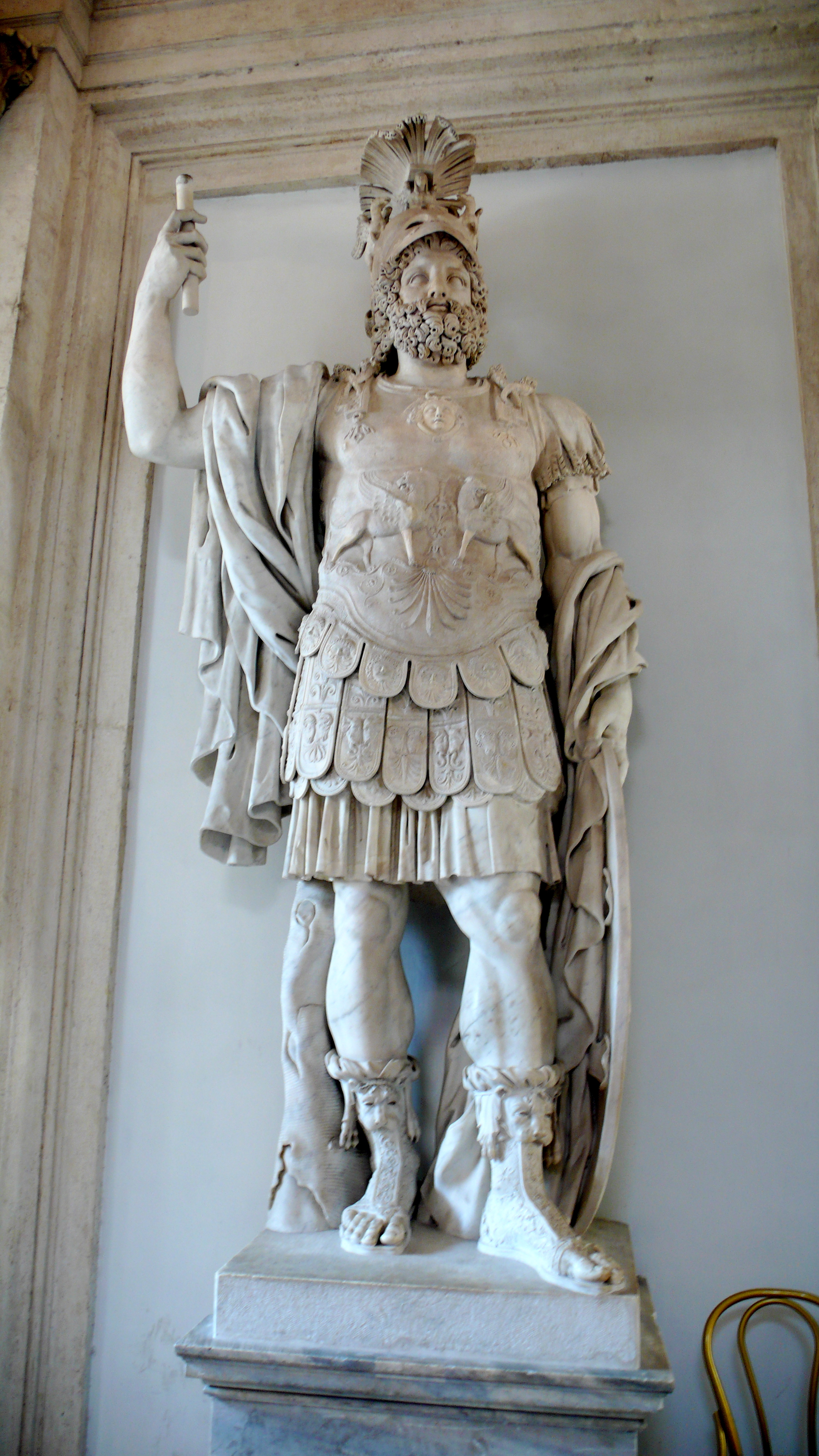 Marble statue of Mars: "Pyrrhus", dated to the 1st century AD. Hight: cm 360. It was found in the Nerva's Forum, in Rome, and it's now placed in the atrium of Capitoline Museums in Rome.[1] This statue of Mars Ultor is most likely dated to the early 2nd century AD due to its style (either the end of Trajan's reign or beginning of Hadrian's). It is a copy of an Augustan-era original, which itself was based on a Hellenistic Greek model from the 4th century BC.[2]